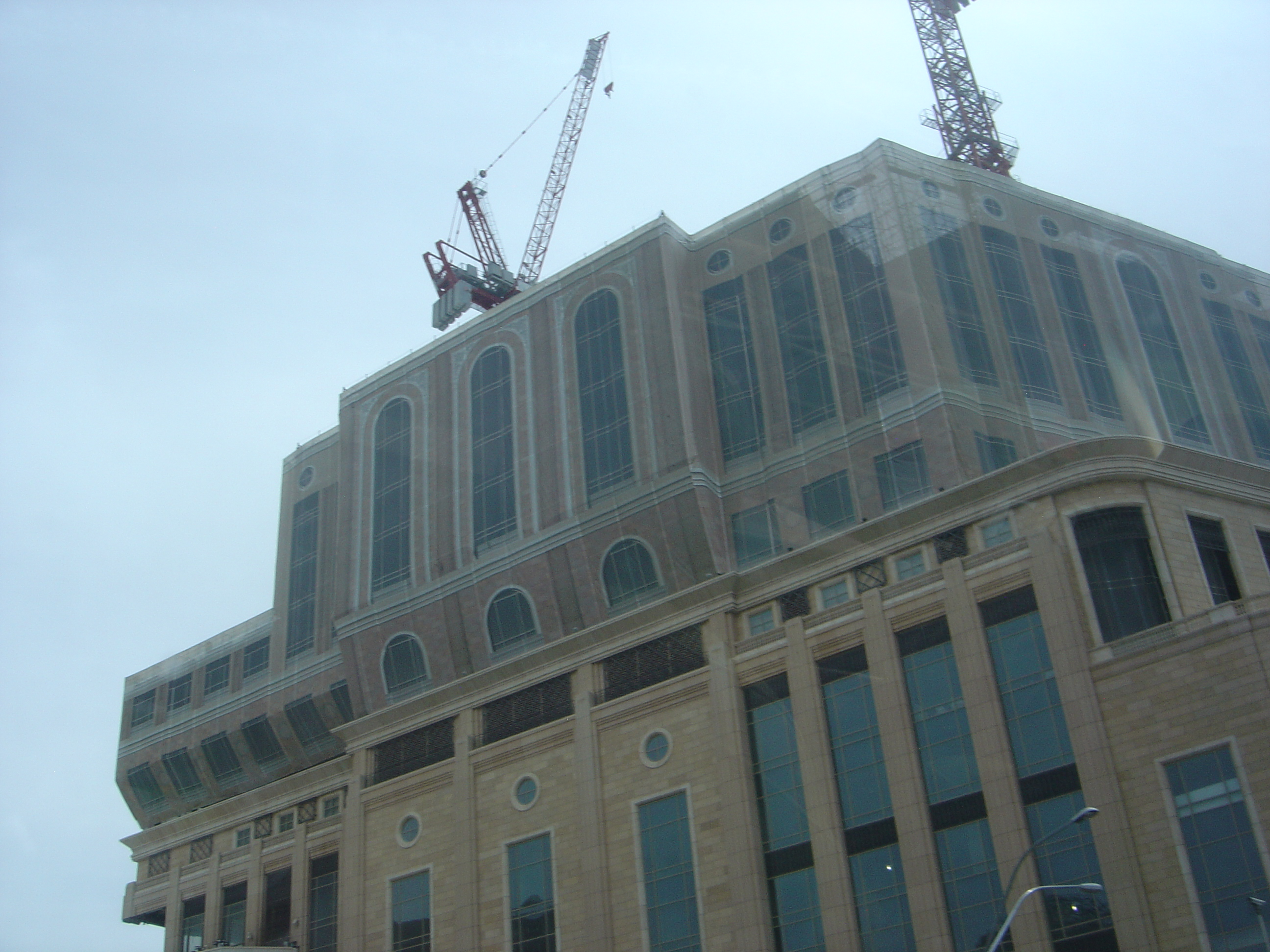 The unfinished St. Regis Residences, adjacent to The Palazzo resort on the Las Vegas Strip.